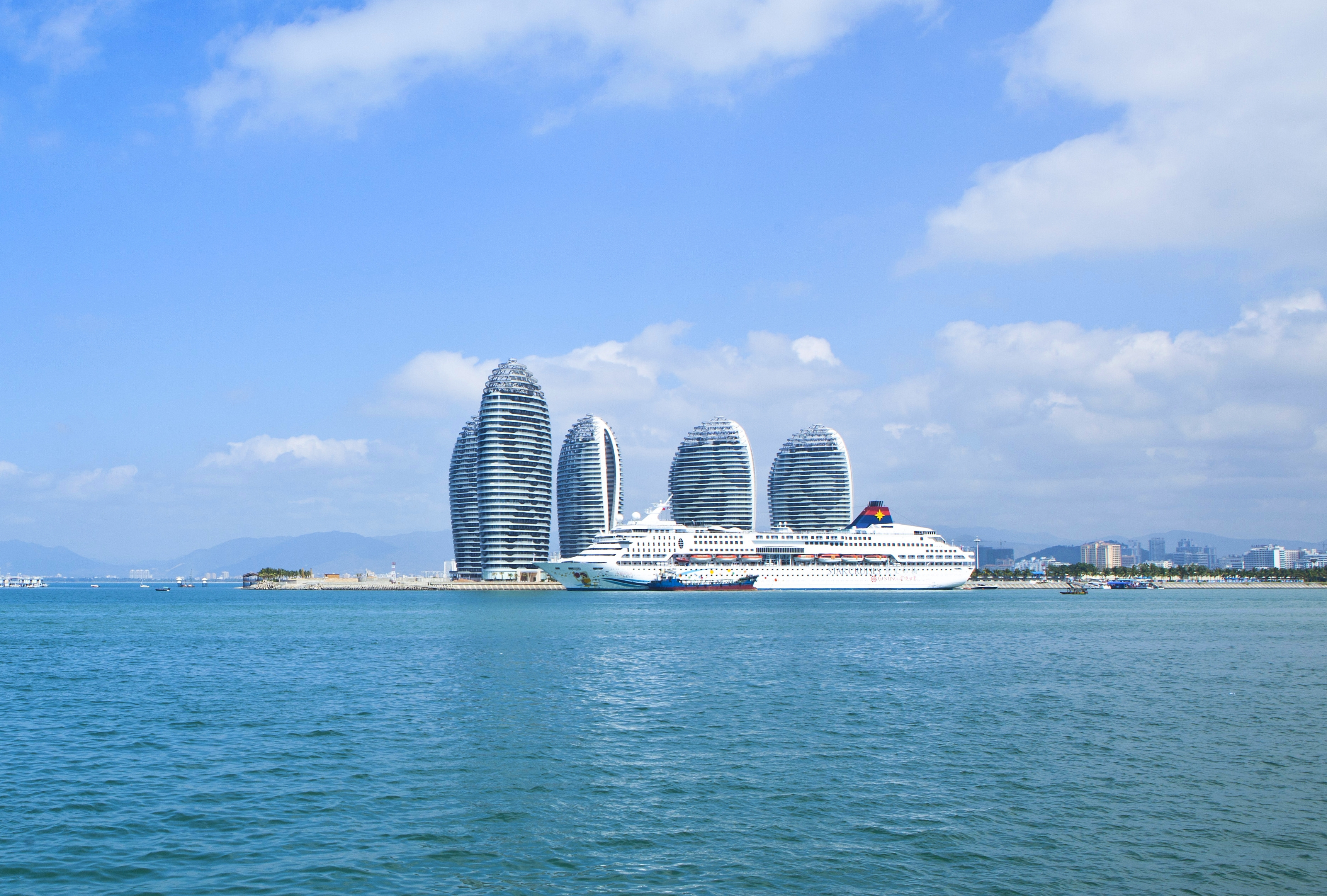 Superstar Aquarius (ship, 1993) at Phoenix Island, Sanya Bay, Hainan, China.